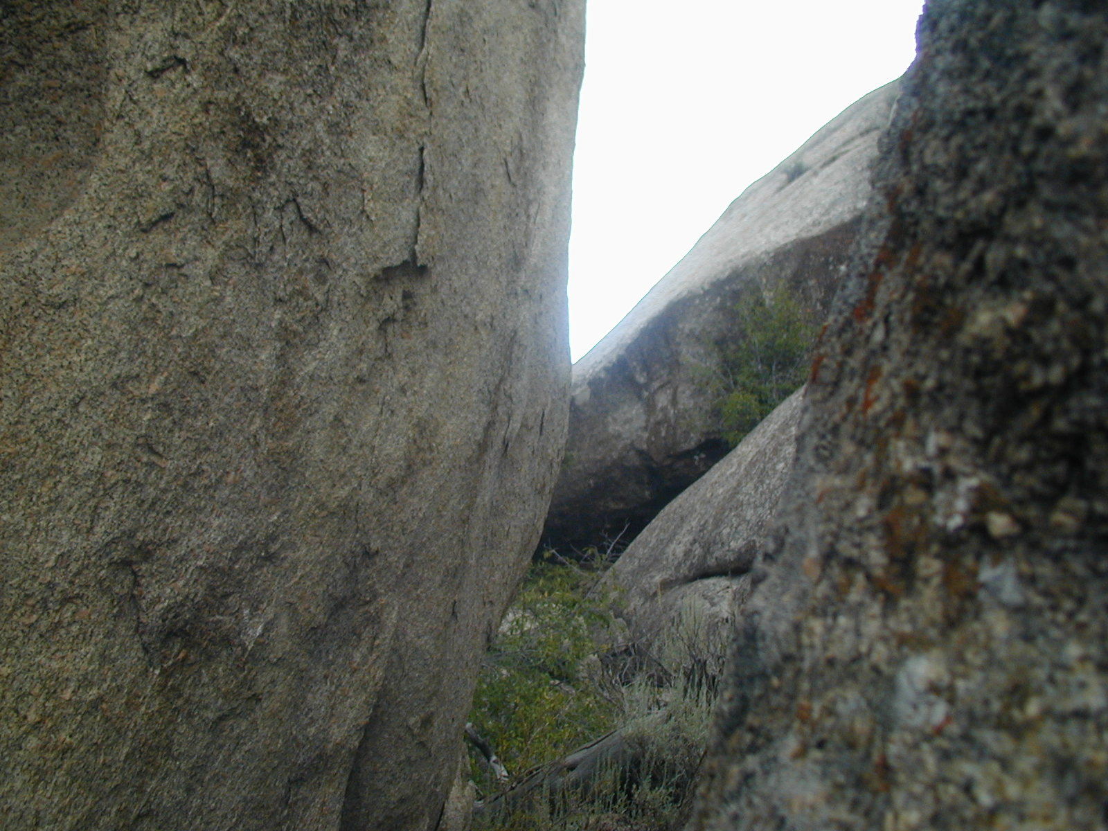 Rock Formations